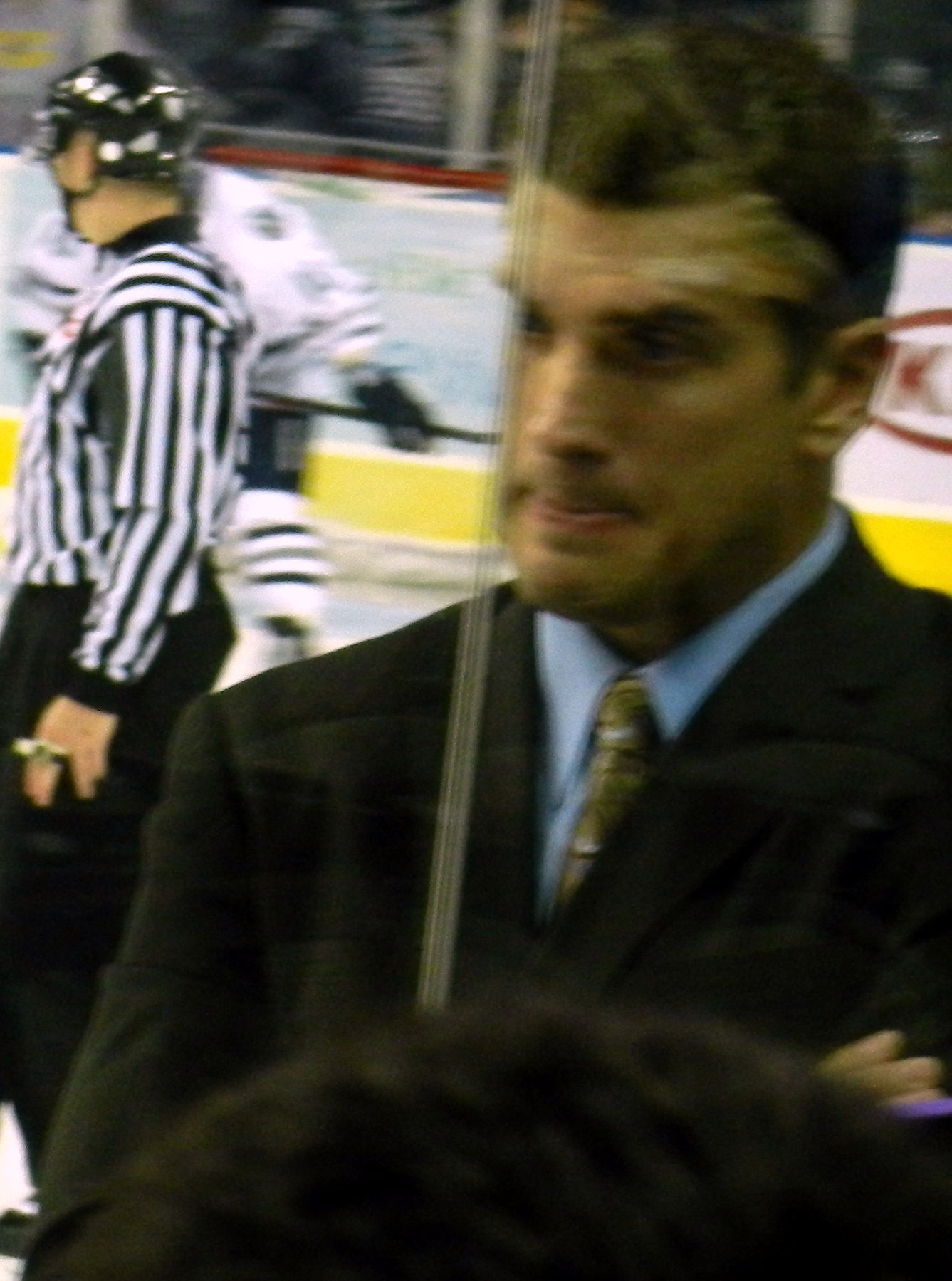 Nick Bootland coaching the Kalamazoo Wings